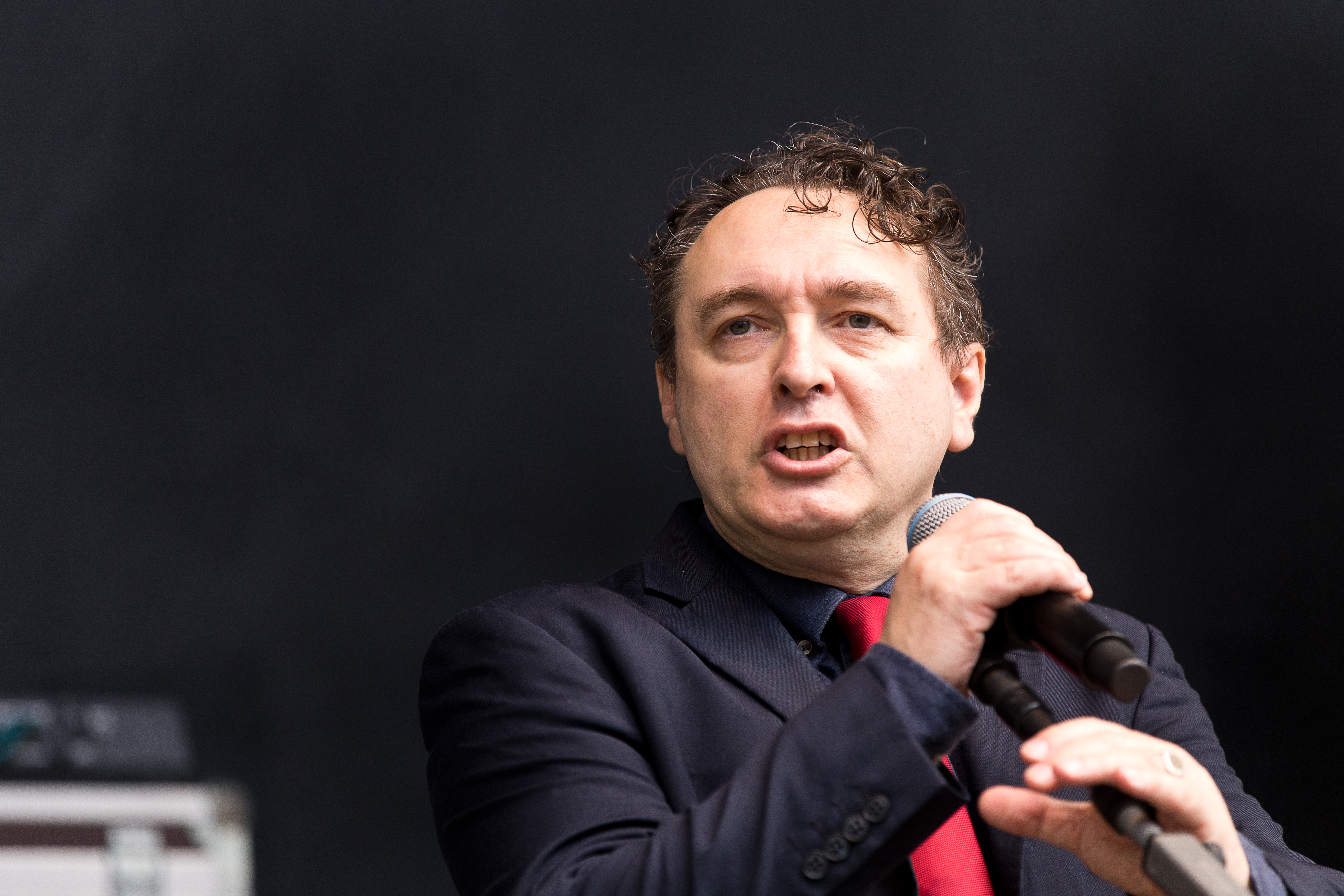 The English wave and electro punk band The Cassandra Complex at the Nocturnal Culture Night 11 2016 in Deutzen/Germany.